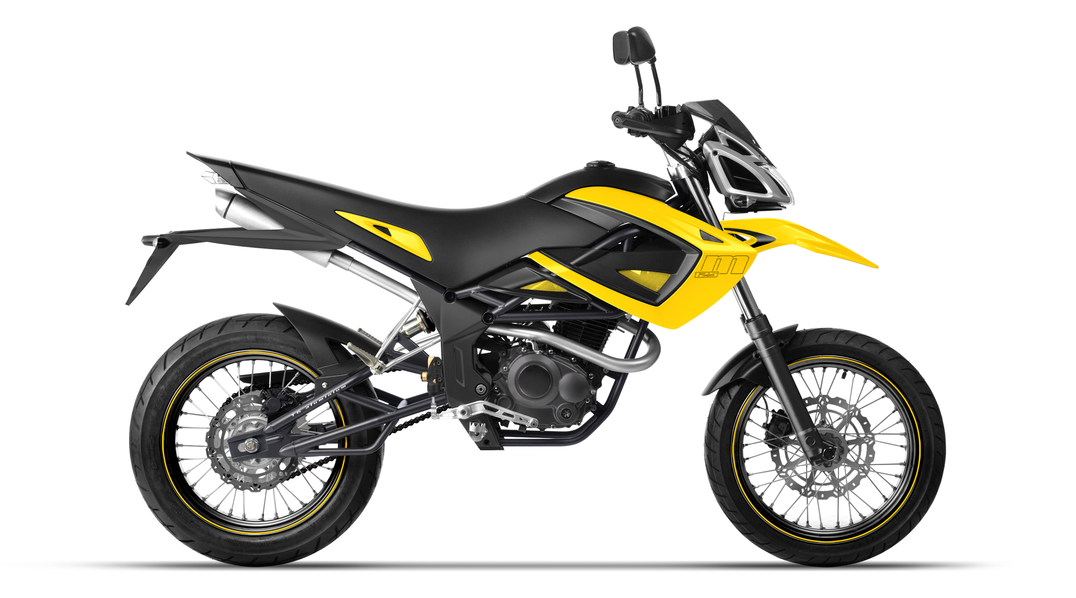 Megelli Motard motorcycle 2008